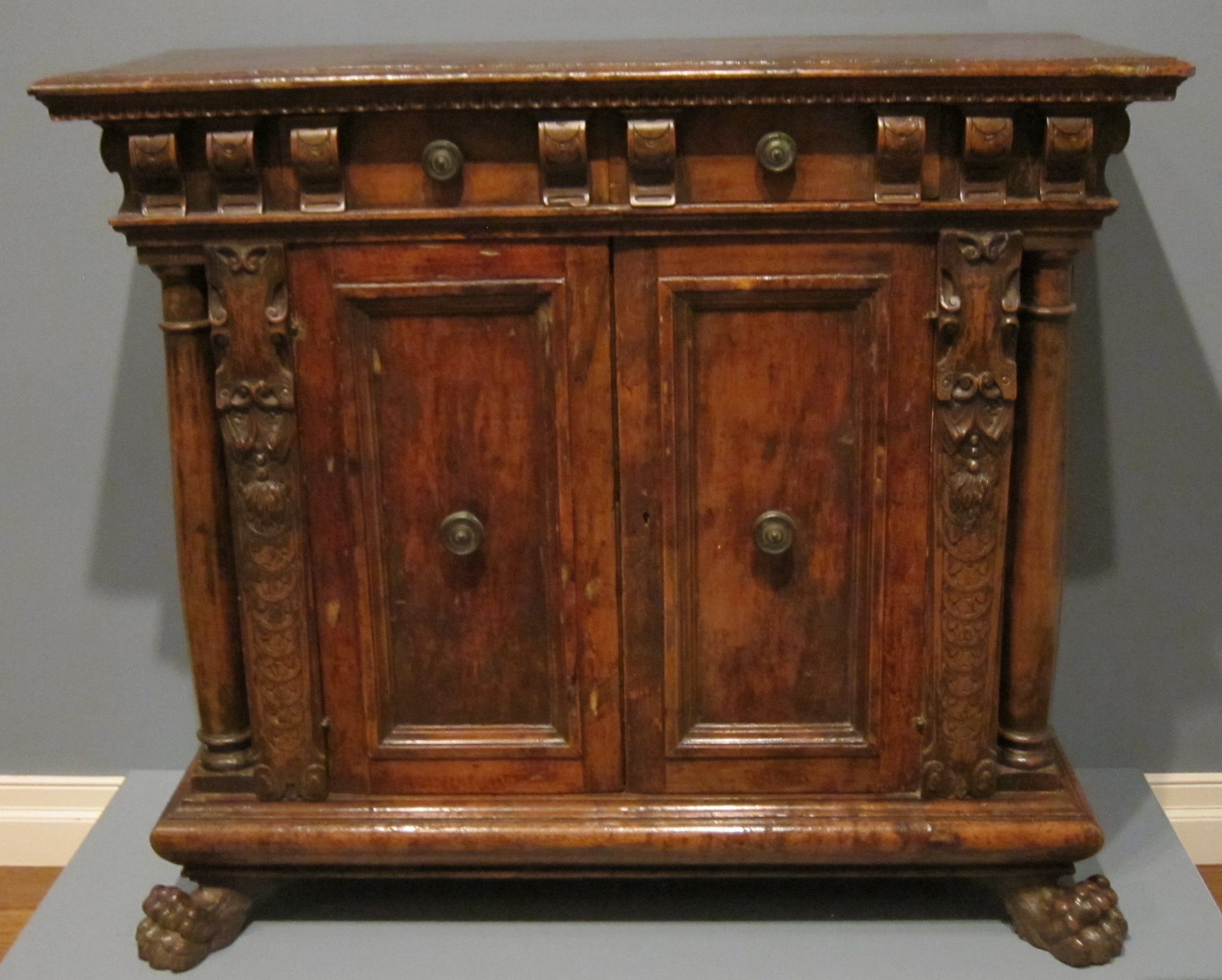 15th or 16th century Italian credenza, Honolulu Academy of Arts